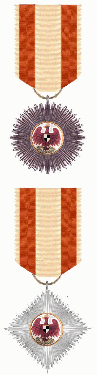 Order of the Red Eagle